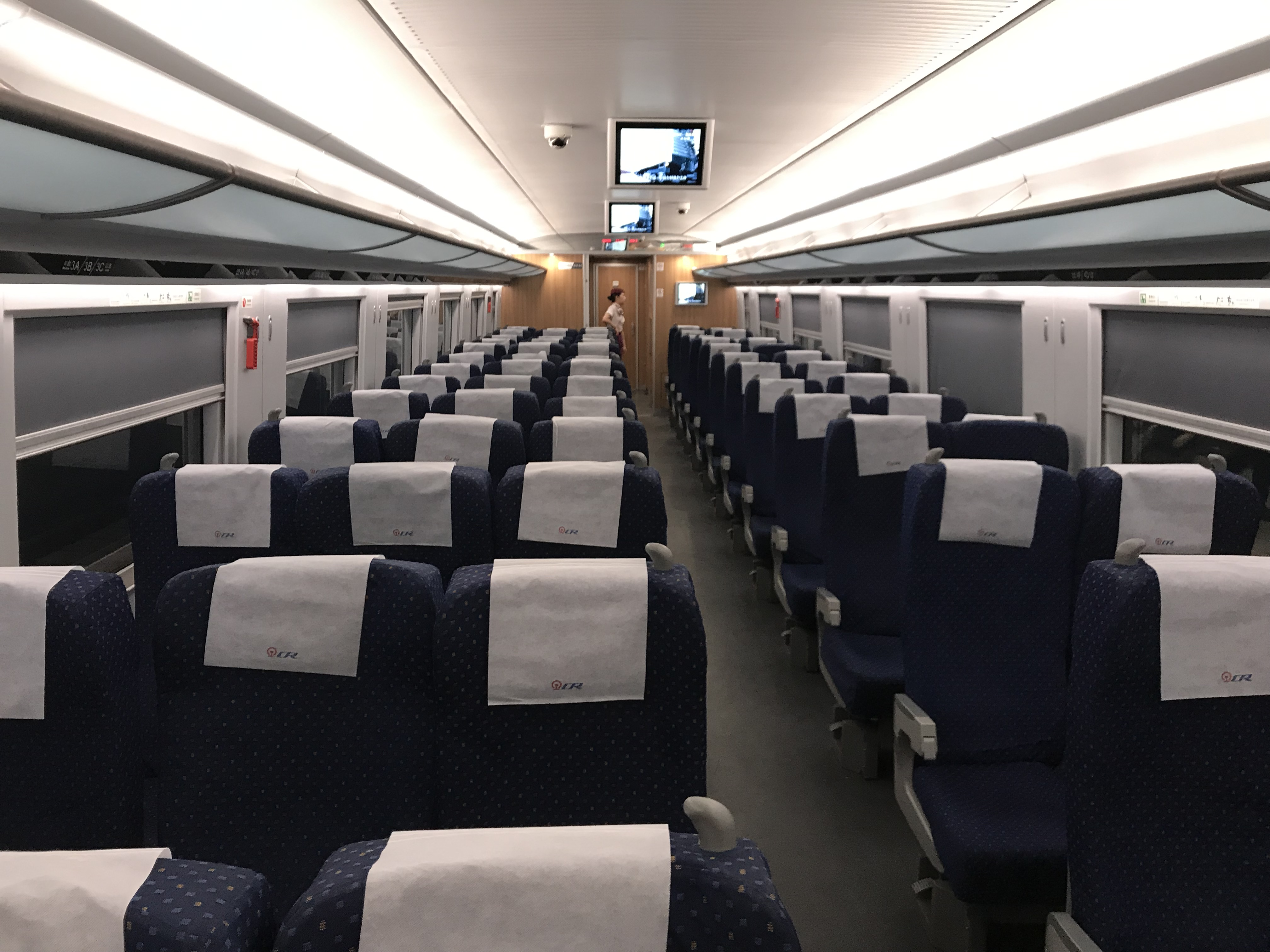 201908 Second Class Interior of CRH3A